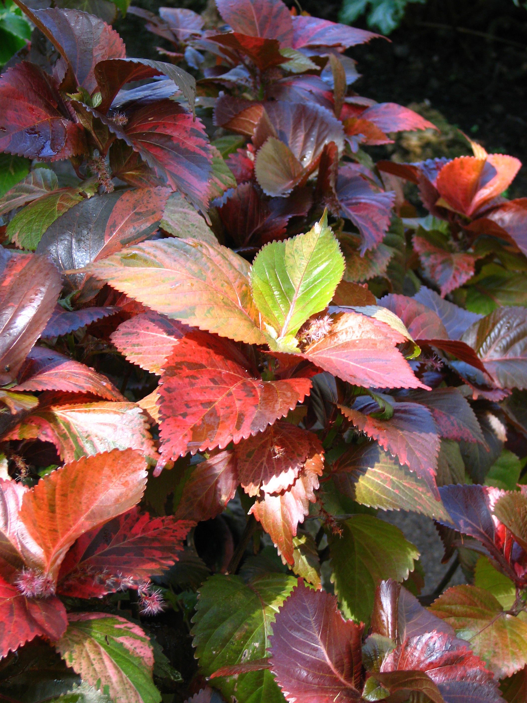 Greenhouses of the Botanical garden (Saint Petersburg).